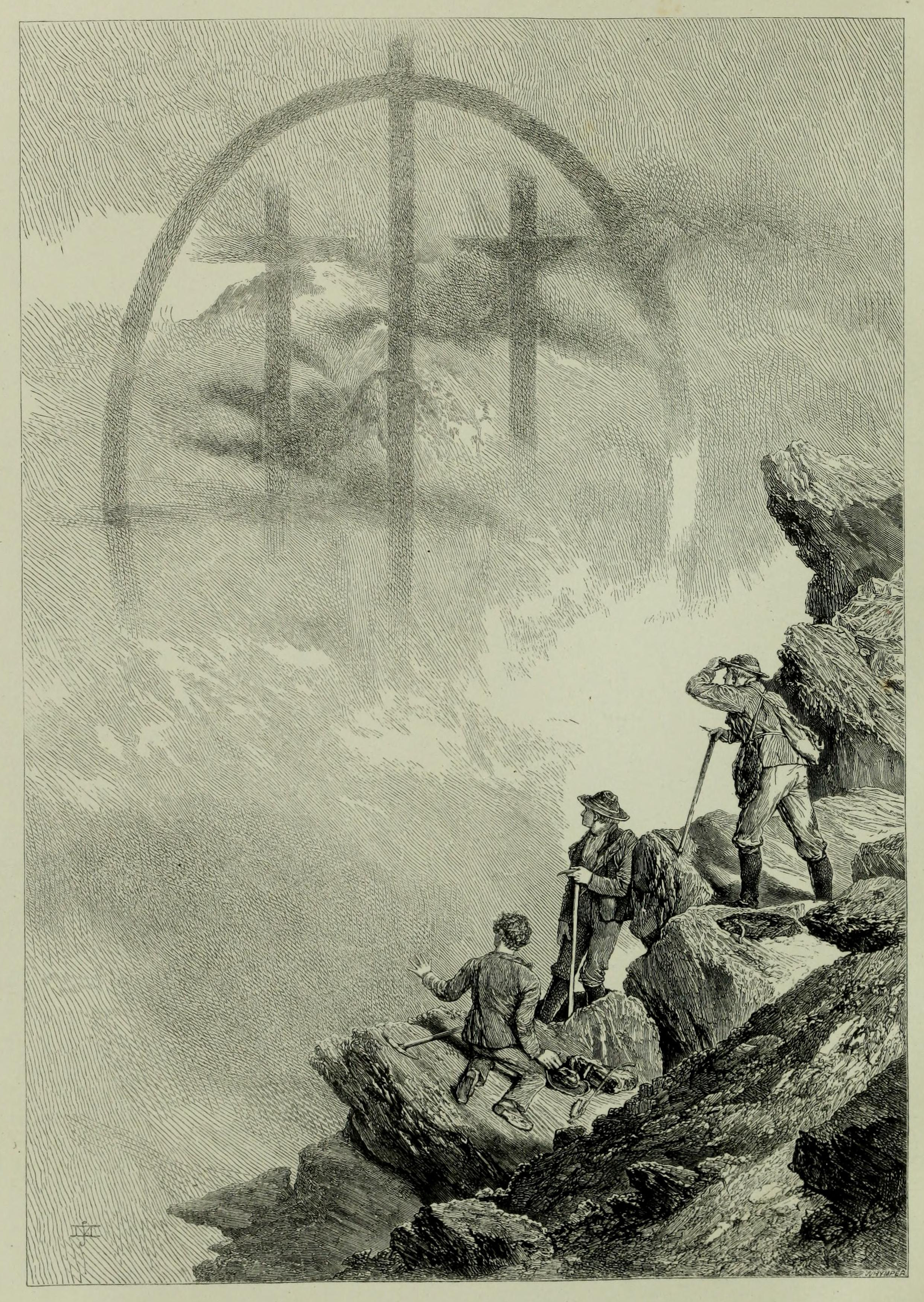 Image on page 8 of Scrambles amongst the Alps - "Fog-bow seen from the Matterhorn on July 14, 1865."